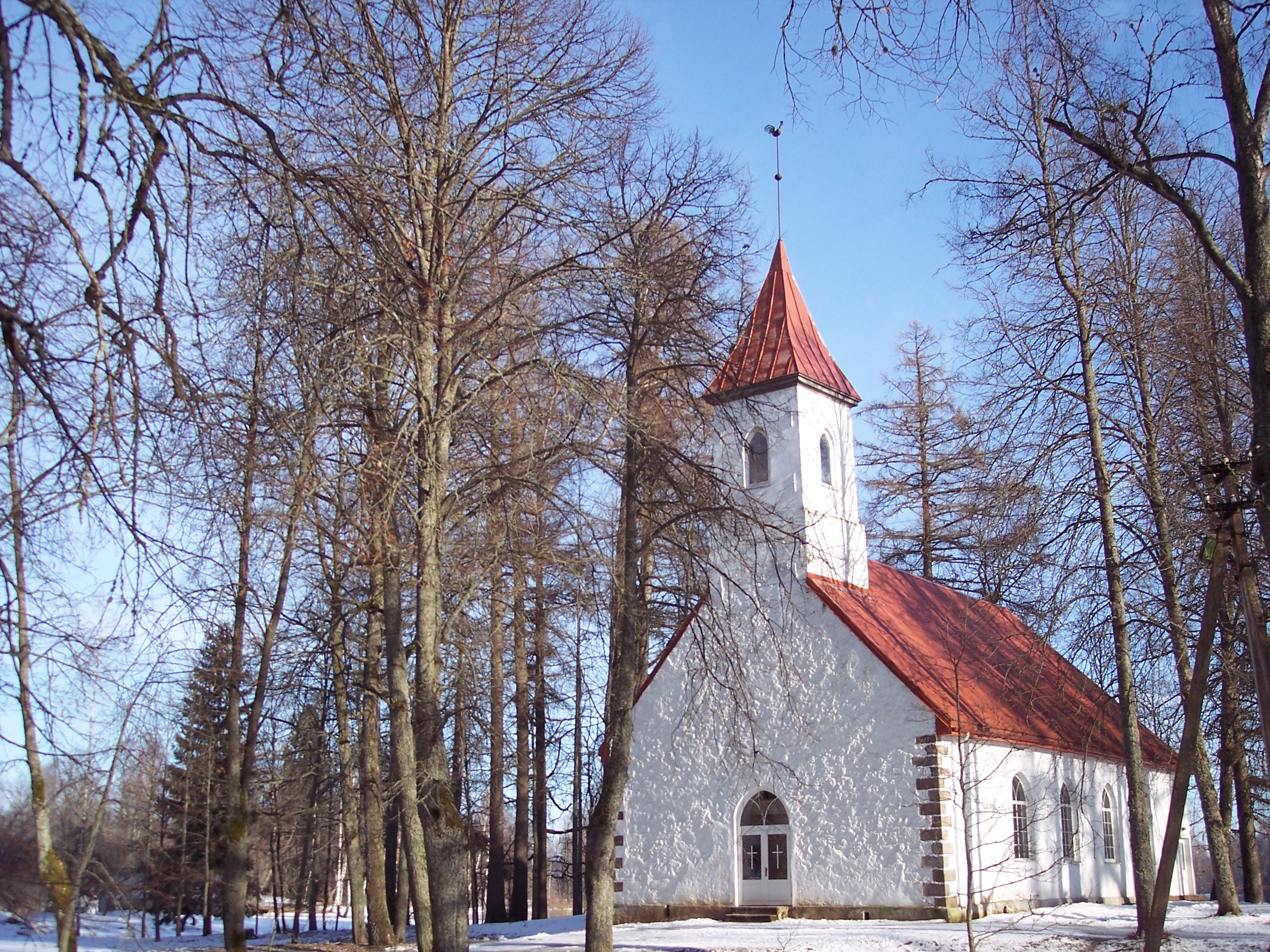 Augstroze Evangelical Lutheran ChurchLatviešu: Augstrozes evaņģēliski luteriskā baznīca